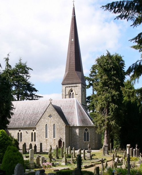 St Patricks, Church of Ireland, Enniskerry, County Wicklow